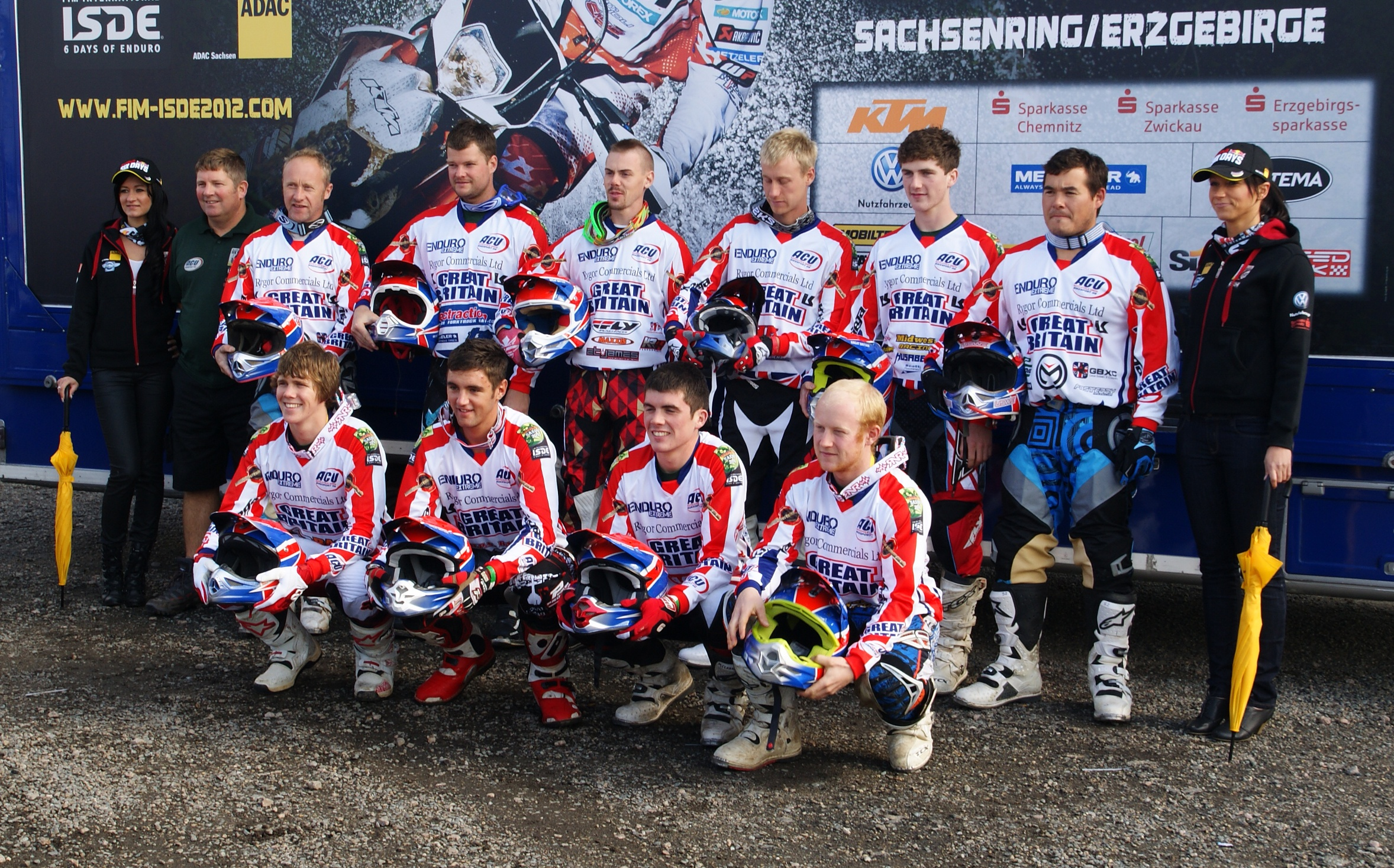 The making of this document was supported by the Community-Budget of Wikimedia Germany. 87. ISDE Saxony 2012 National Teams Great Britain